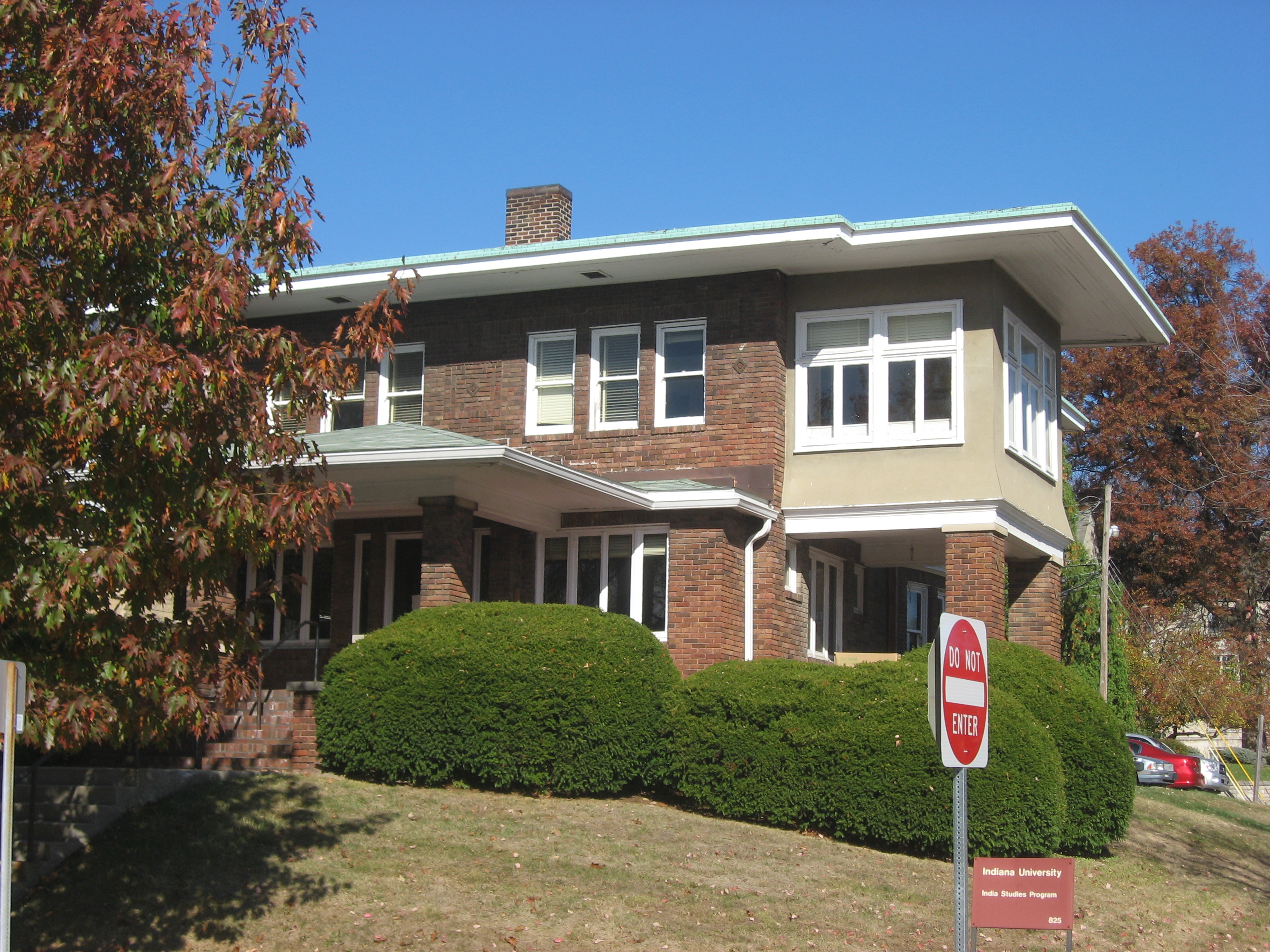 Front of the India Studies Program offices, located at 825 E. Eighth Street in Bloomington, Indiana, United States. Built in 1930, it is a part of the University Courts Historic District, a historic district that is listed on the National Register of Historic Places.